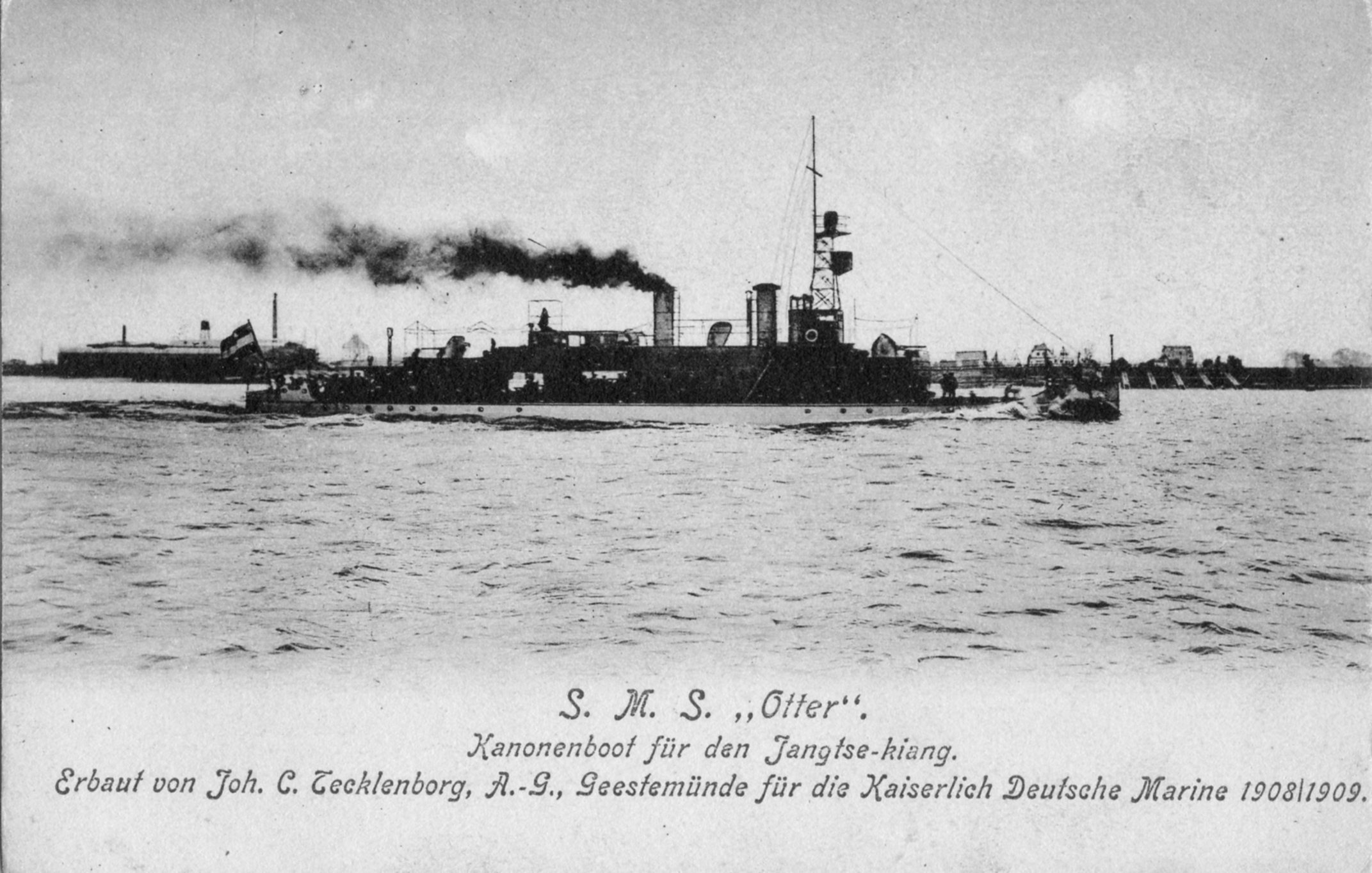 German river gunboat SMS OTTER, built for China service, round about 1909 on the river Weser under national flag